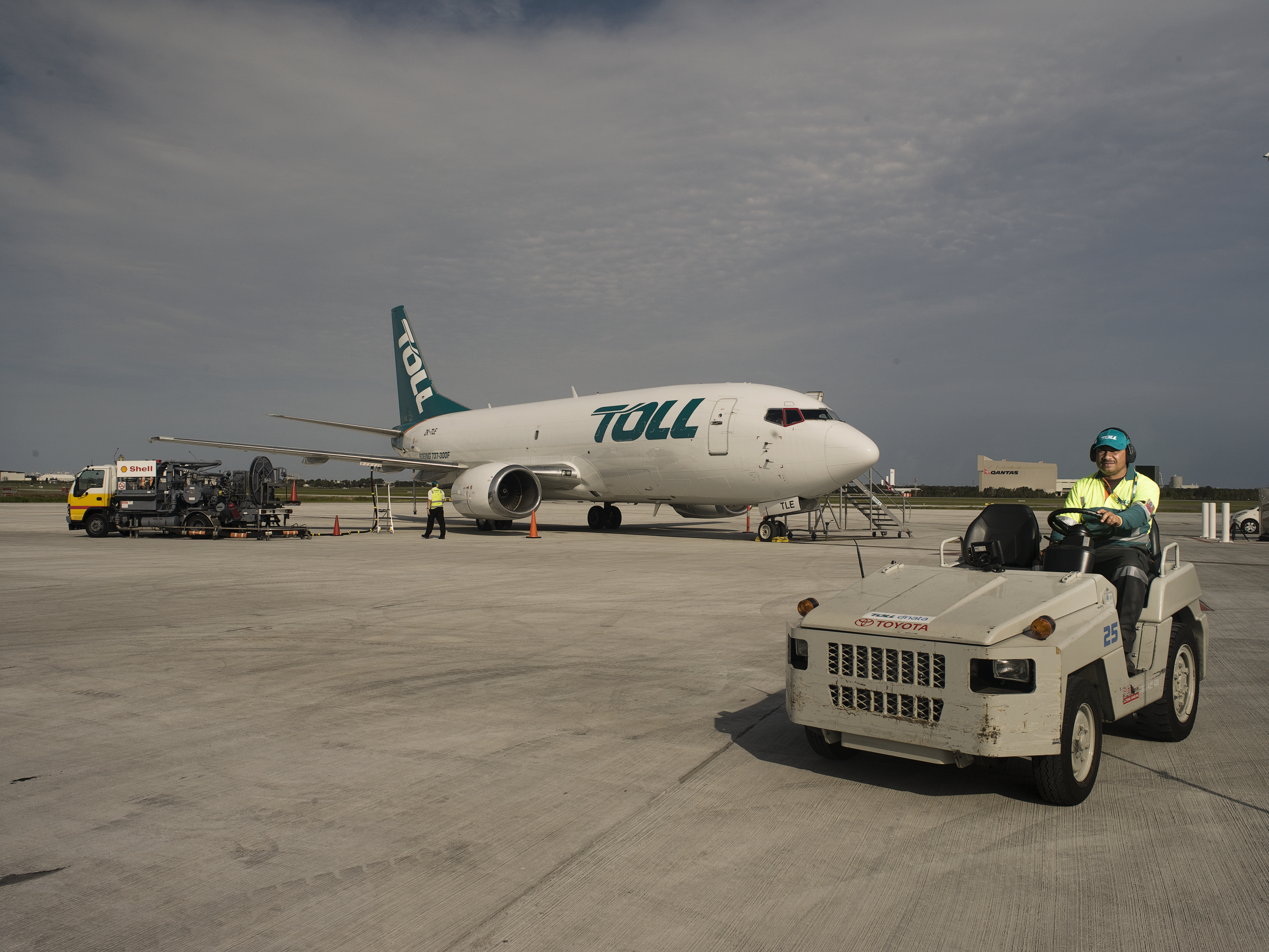 Toll 737 aircraft